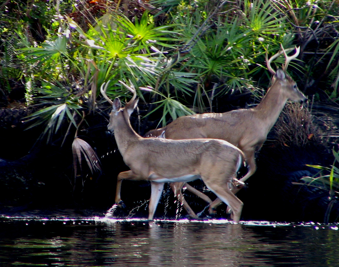 Two White-tailed bucks on the Loxahatchee River in Jonathan Dickinson State Park in Hobe Sound, Florida. The bucks had just recrossed the river, having chased two does across, who lost them by entering mangroves too thick for the buck's antlers. Taken by User:Mwanner, 9 January, 2006.